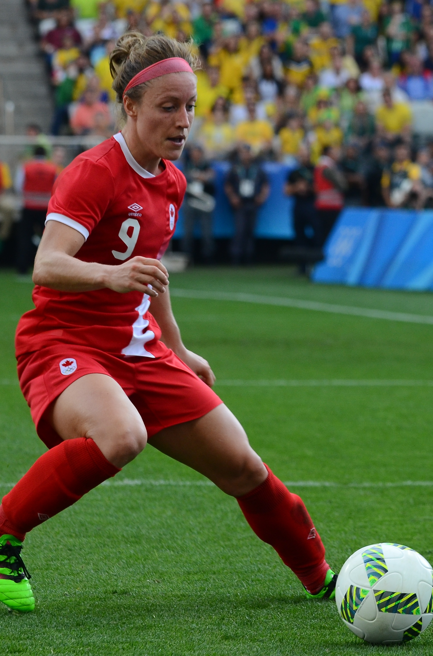 Canadian player Josée Bélanger in São Paulo, during Rio 2016 match BRA x CAN which gave her country the bronze medal in women's football (Rovena Rosa/Agência Brasil)